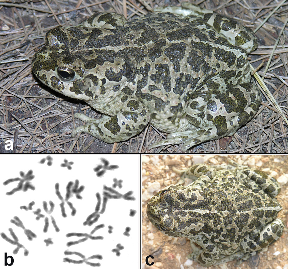 Holotype of Bufo siculus n.sp. and chromosomes of the new species. (a, c) Holotype of Bufo siculus n.sp. (P215, Museum of Terrasini, Palermo), adult female, in life (Photo: M. Lo Valvo). (b) Somatic metaphase from a paratype (MVZ 250742), southeastern Sicily, San Leonardo River, with 2n = 22 chromosomes (Photo: M. Stöck).